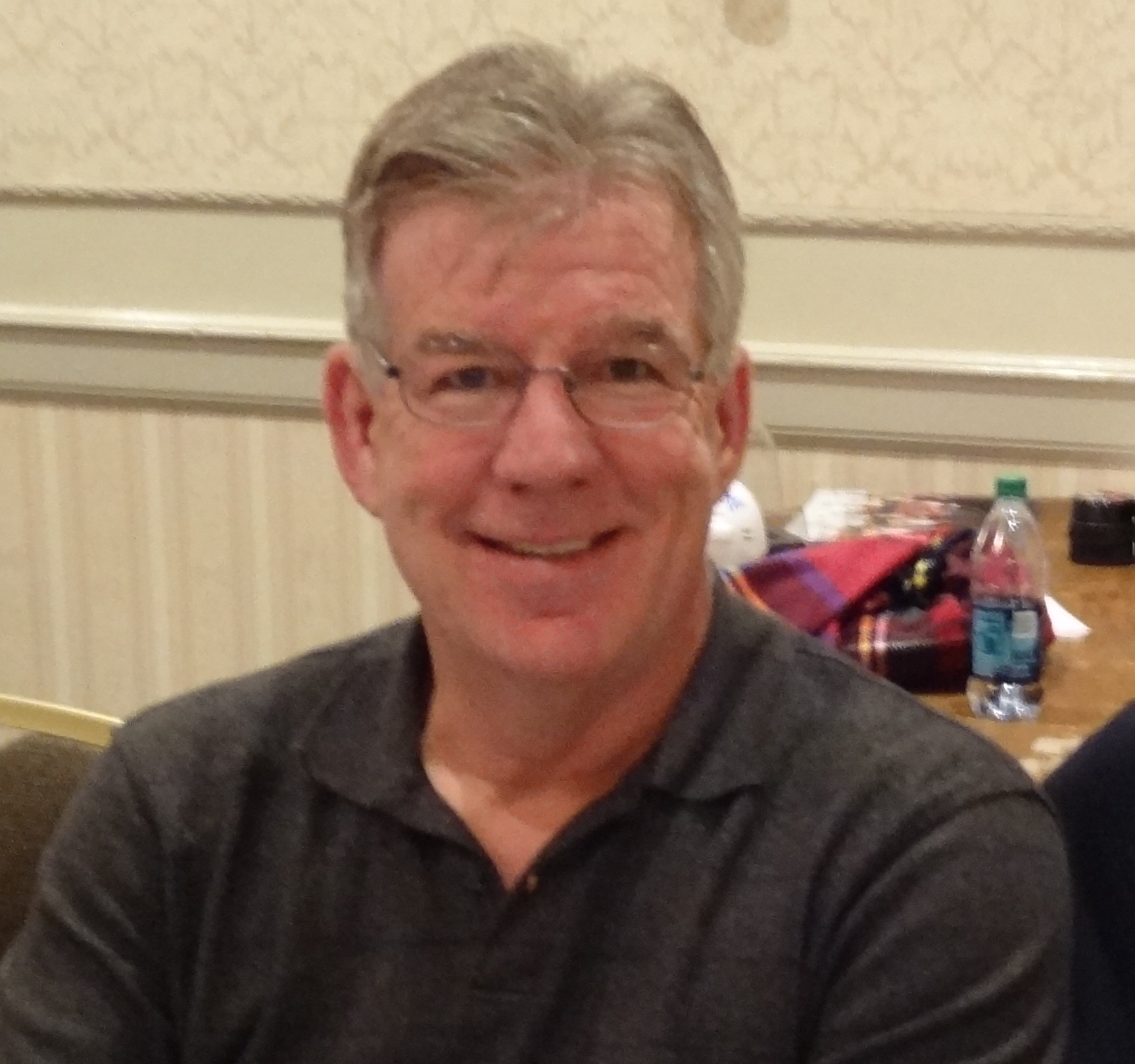 I took this picture of Terry at a local signing on 01/29/12